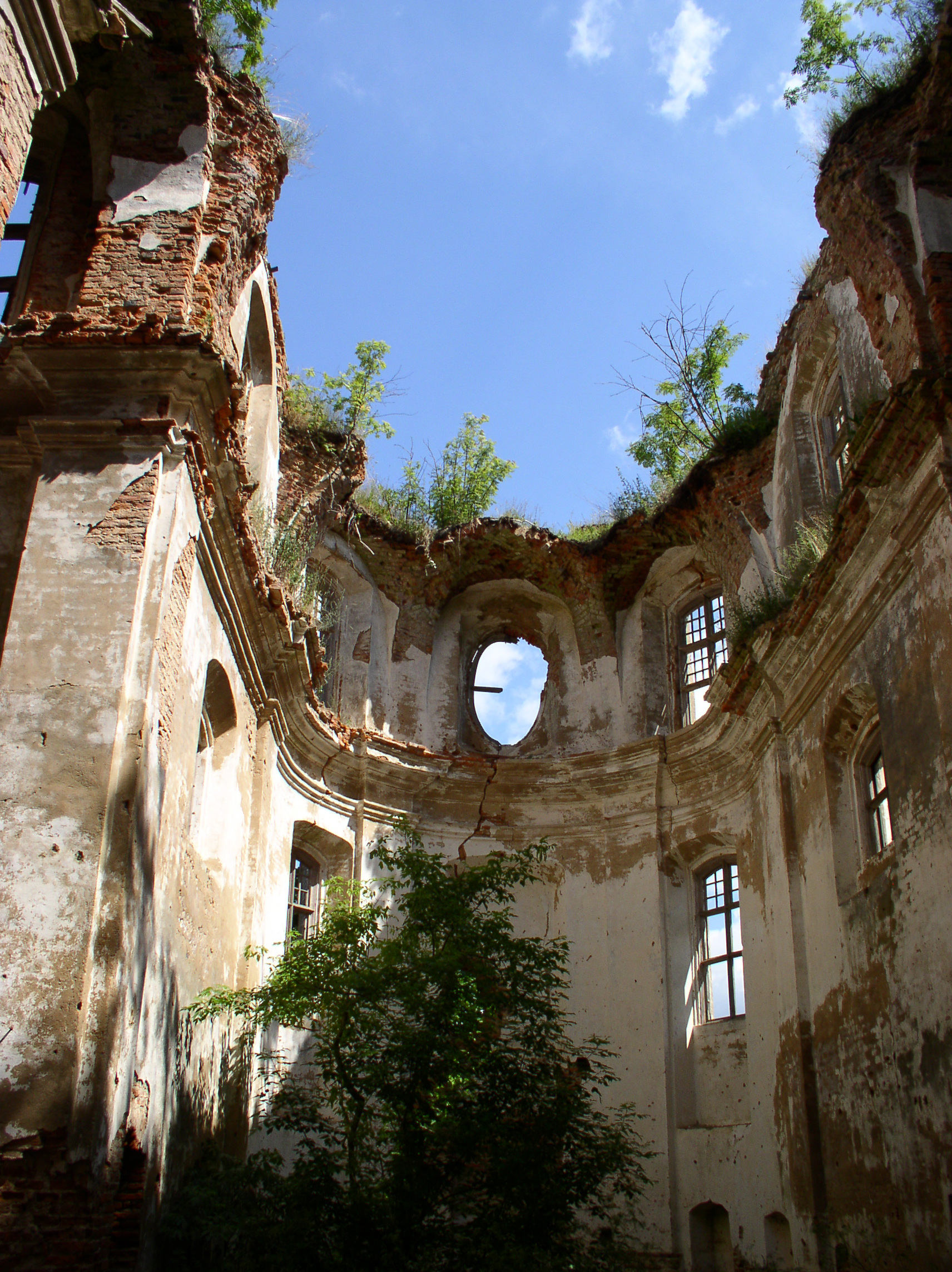 Church of Saint Virgin Mary, Smalyany, Belarus.